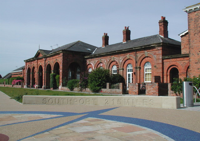 215 Miles from Southport, Hornsea, East Riding of Yorkshire, England.Part of the installation at the old Hornsea Railway Station marking the end of the Trans Pennine Trail. The trail which runs for 215 miles from Hornsea to Southport officially opened in September 2001 after twelve years of planning and development. There are actually three locations in Hornsea where the eastern end of the trail is marked: as well as this one there is a tall metallic sculpture on the seafront and also a small and rather dull concrete plinth outside Hornsea Leisure Centre on Sands Lane. In 1846 the York & North Midland Railway Co. was granted permission to build a railway line from Beverley to Hornsea, and in 1861 Joseph Armytage Wade promoted the building of a line from Hornsea to Hull and the Hull & Hornsea Railway Co. was formed. The line opened in 1864 with this station close to the sea and another at Hornsea Bridge at the junction of Southgate and Rolston Road. After little or no financial success the company merged with North Eastern Railway in 1866. The seafront terminus closed in 1964 and Hornsea Bridge Station the following year. Hornsea Bridge Station has been demolished and the buildings here at the terminus converted into housing.